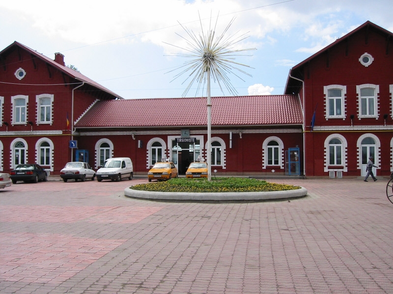 The front of Târgovişte Sud Railway Station